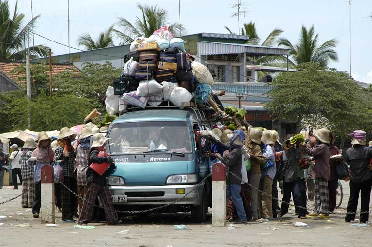 Vehicle waiting for the Ferry crossing to Neak Leoung